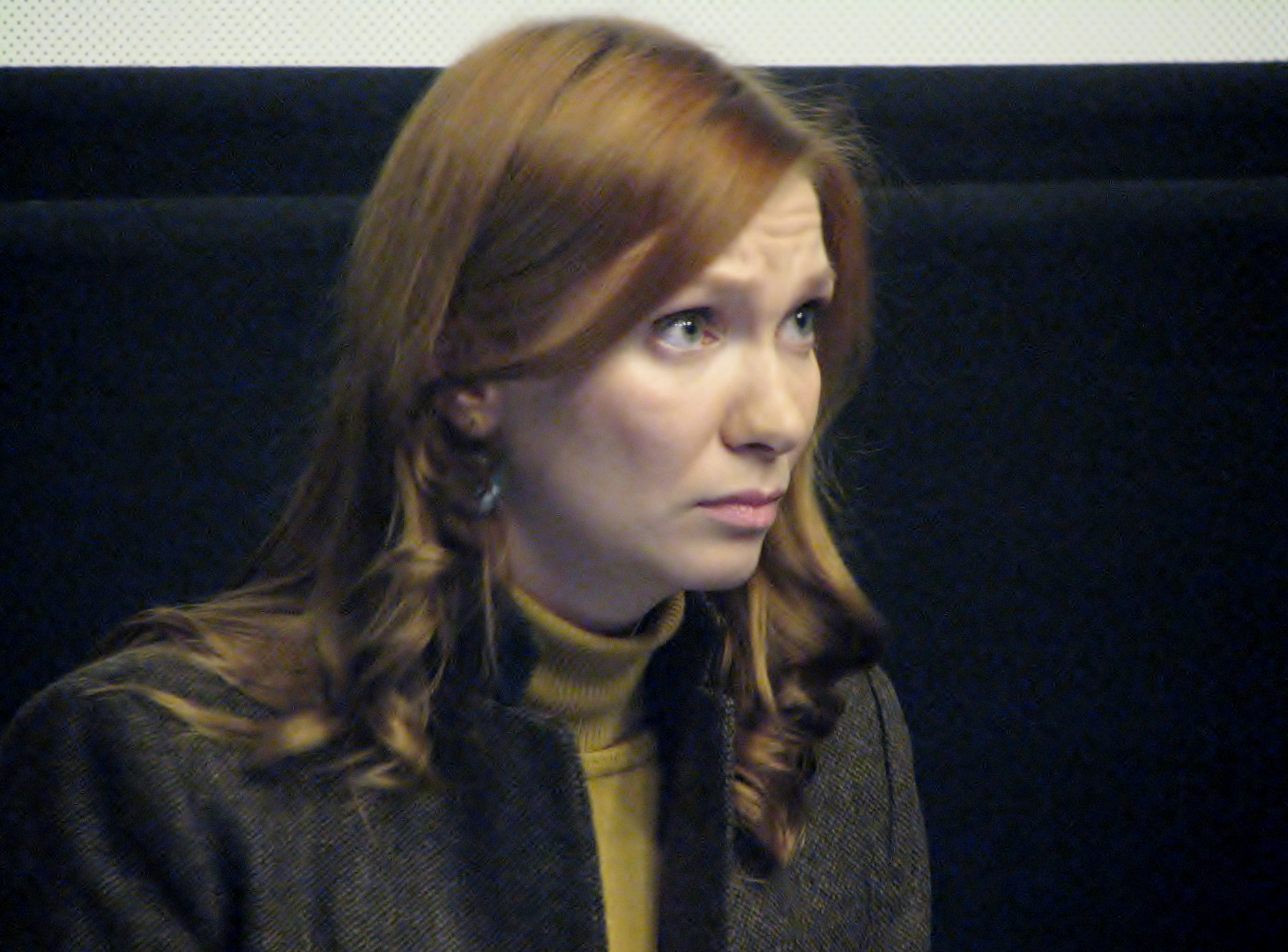 Eva Näripea performing during 16th Tallinn Black Nights Film Festival